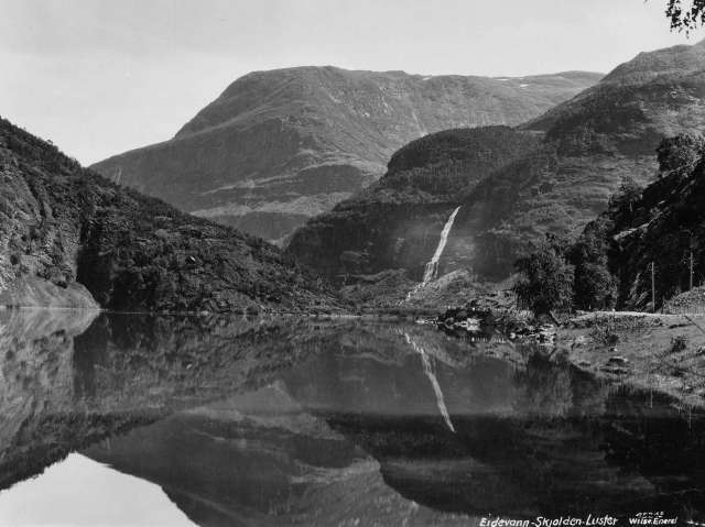 The lake Eidsvann in Skjolden, Luster, Norway. Ludwig Wittgenstein had a cabin 60-80m above the lake. Visible, on the left hand side of the picture. The village of Skjolden itself is further to left, on the edge of the lake. Photograped in 1937 by Anders Beer Wilse. ( for a contemporary view.)